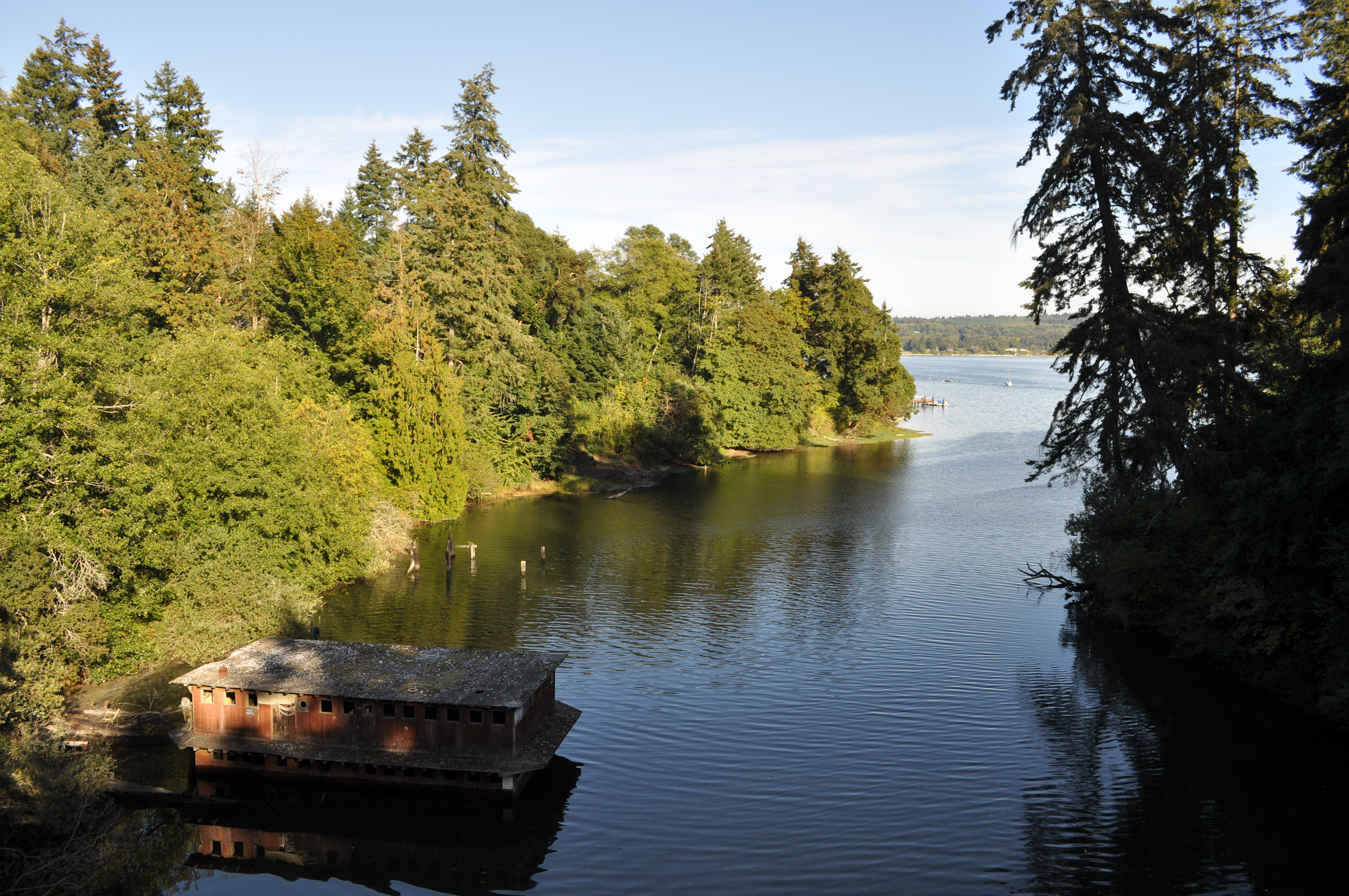 Looking downstream on the Judd Creek Bridge, Vashon Highway SW, near Burton on Vashon Island, Washington.